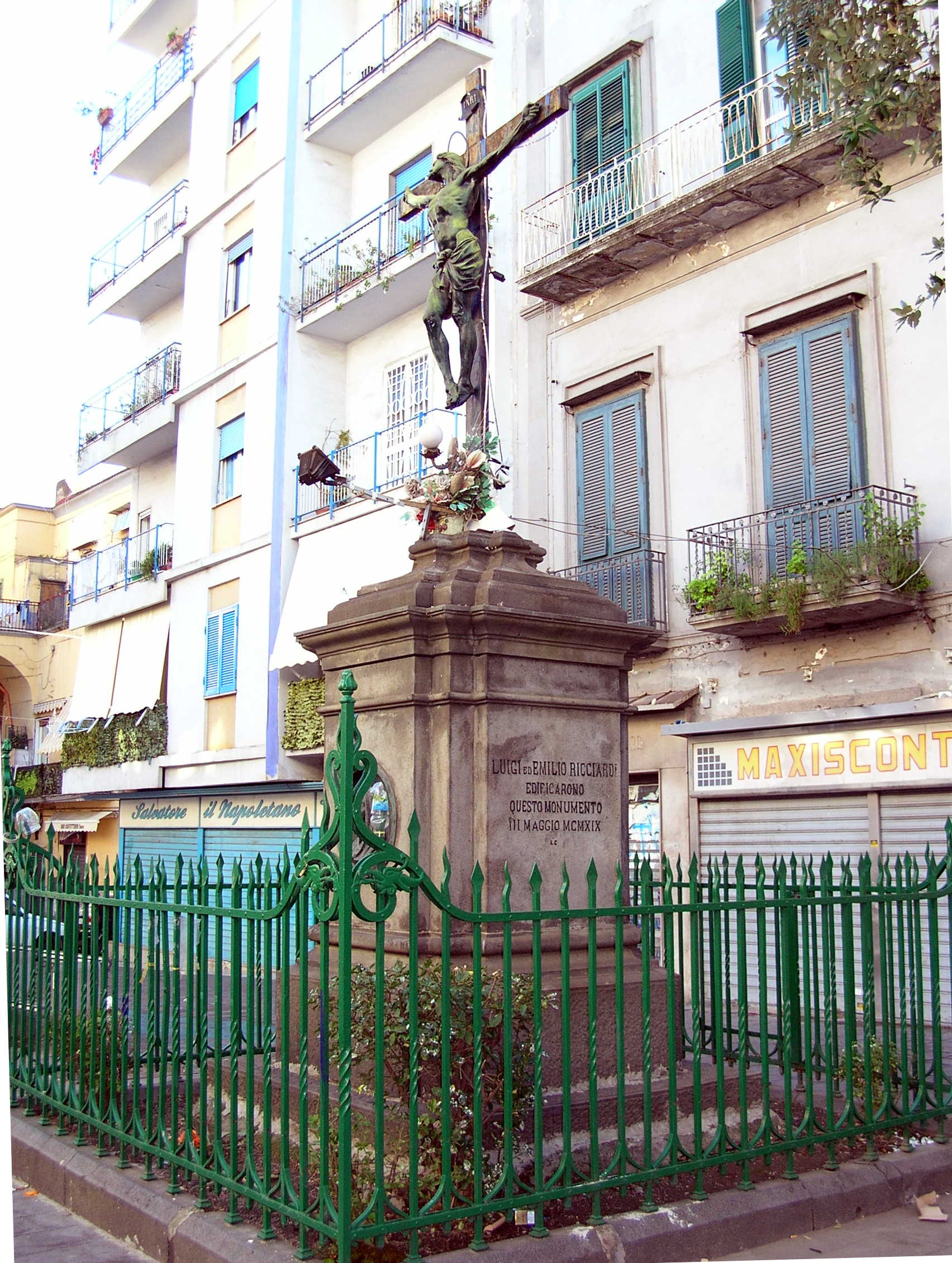 Crucifix in Caesar Baptists square in Torre Annunziata